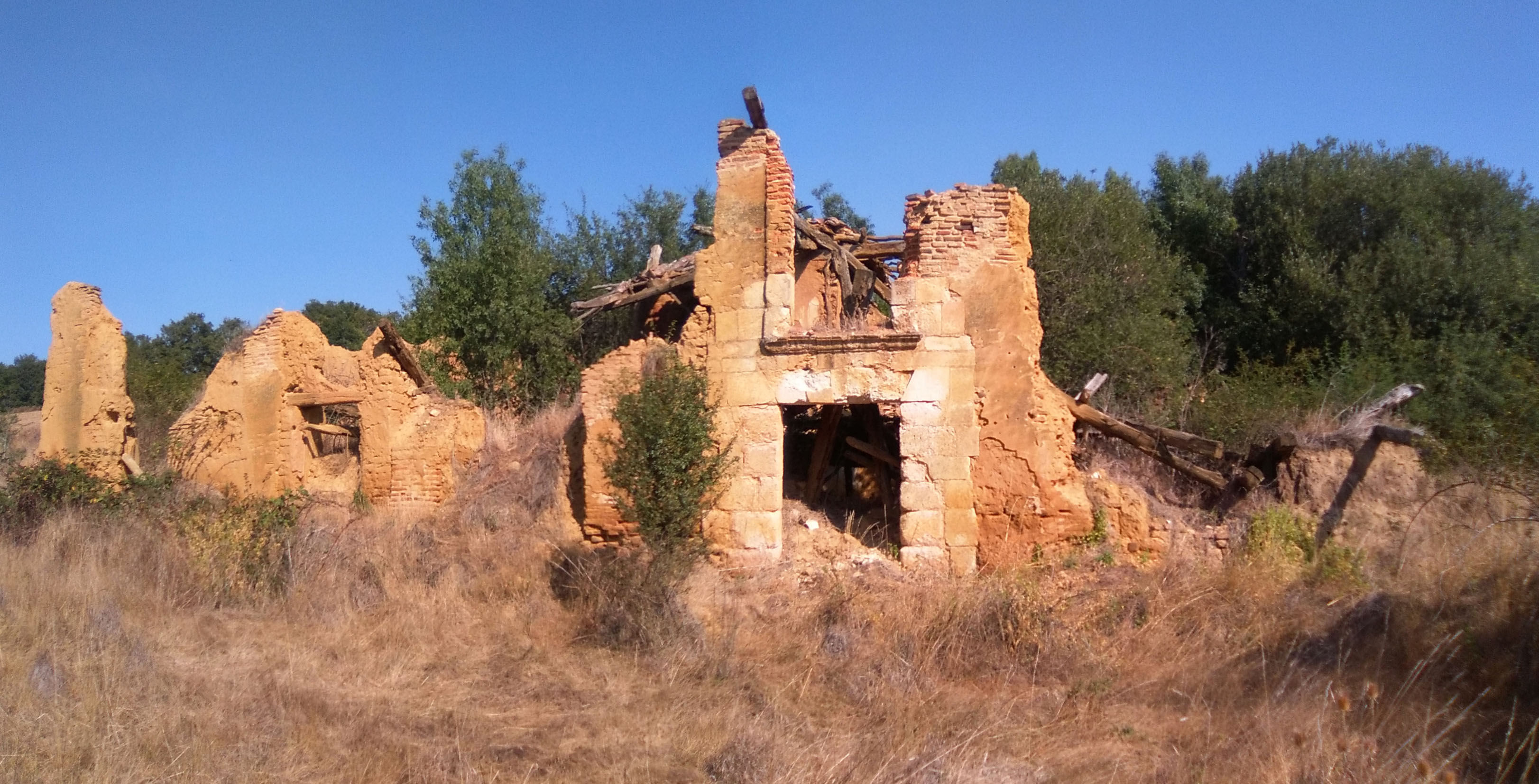 Remains of Priory of Mañino in Sotobañado y Priorato (Palencia, Castile and Leon).